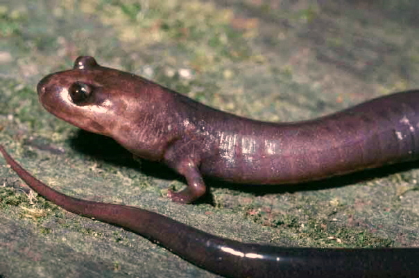 Phaeognathus hubrichii, the Red Hills salamander. State amphibian of Alabama. This is a retouched picture, which means that it has been digitally altered from its original version. Modifications: corrected lighting and colouration.